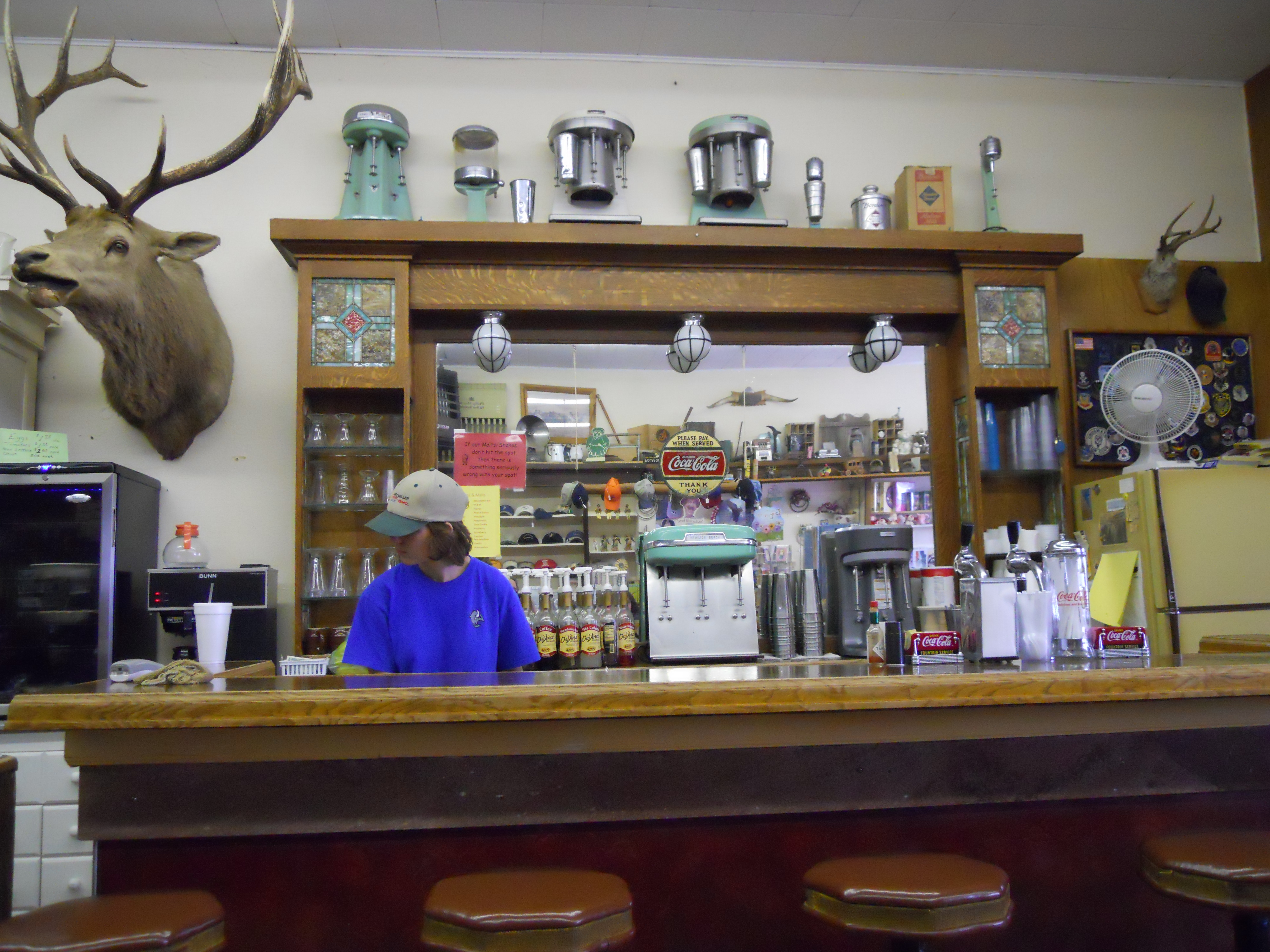 The History of the Chugwater Soda Fountain The Oldest Operating Soda fountain in Wyoming The Soda fountain is housed in one of the oldest buildings in Chugwater. The building was built in 1914, later, partially burned down, and was rebuilt in 1916. It has been a Doctor's office and a pharmacy. There was a small apartment in the back where the doctor and his family lived. The pharmacy drawers are still intact along one wall of the store. The soda fountain bar was built in England and installed in a business in Rock Creek WY. when the Railroad went through in 1927, the town moved to Tock River. The owner was not interested in moving his business, so he sold his equipment to the owner of the pharmacy in Chugwater. The bar was broken aprt into three pieces - the main bar, the top(including the mirror), and the bottom cabinets. It was then packed into wagons and transported over the mountains to be installed in this building. The mirror and glass are all original; you can stand in the back and see the curve in the mirror.1 The pharmacy and soda fountain co-existed for some time, but eventually one of the owners no longer had a pharmacy license and the store became a soda fountain only. Ownership has changed hands many times, with different people making various changes. The large elk overlooking the room is nicknamed "Wendall" for the man who shot him. He was shot near Jackson, WY in 1946 and has resided in the soda fountain since 1947. A town petition prevents Wendall from leaving, no matter who owns it. Over time, different owners have added components like the small package liquor store, "diner", and the Beer Garden in the summer. It remains one of few active soda fountains in the state that serves traditional, hand dipped ice cream shakes and malts.